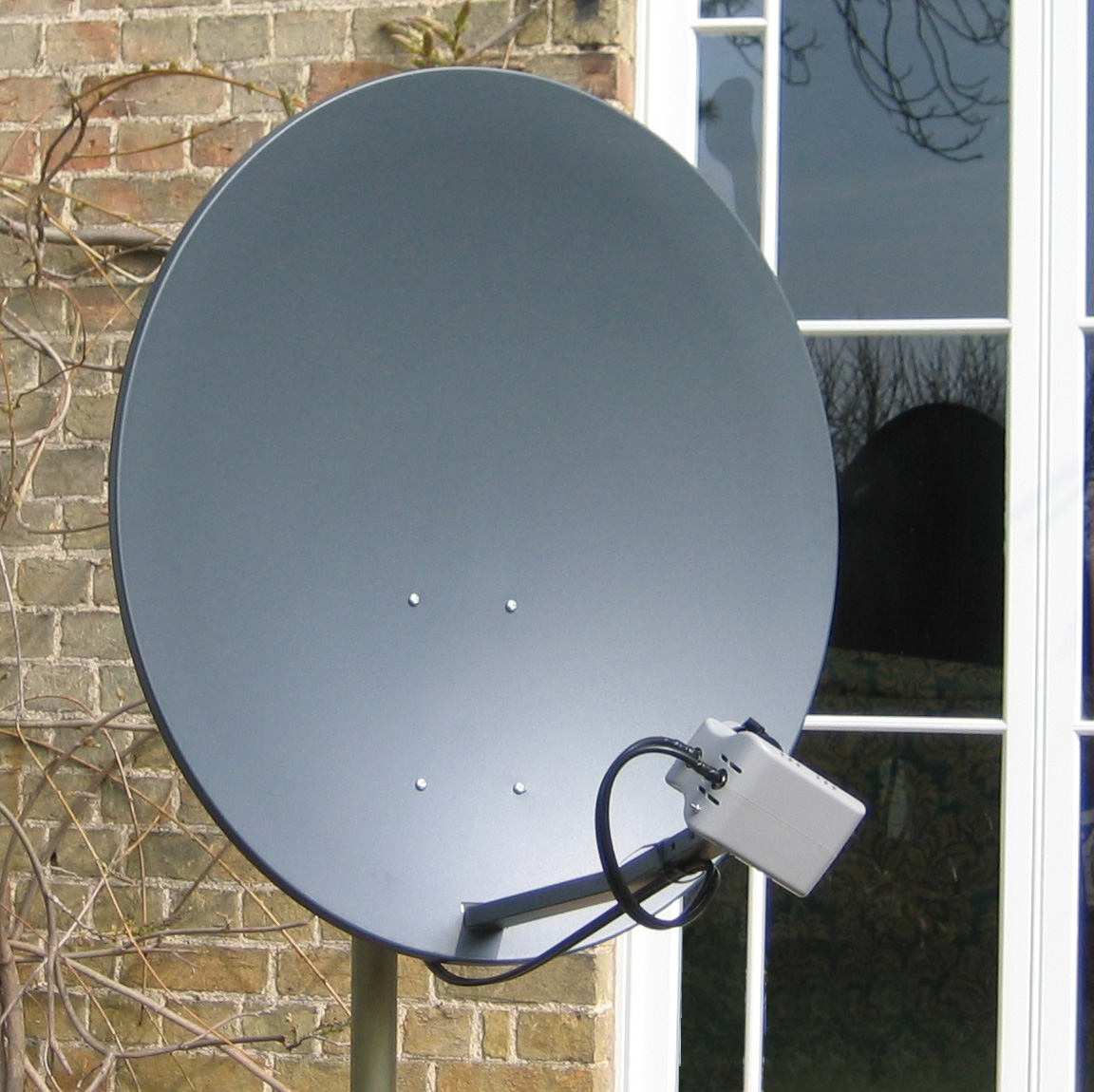 The receive/transmit terminal dish from the ASTRA2Connect satellite broadband system